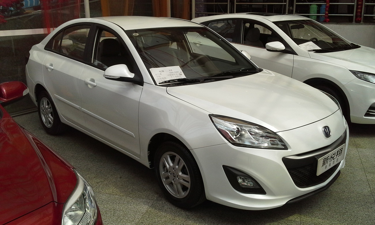 Chang'an Alsvin V5 photographed in Chengdu, Sichuan province, China.